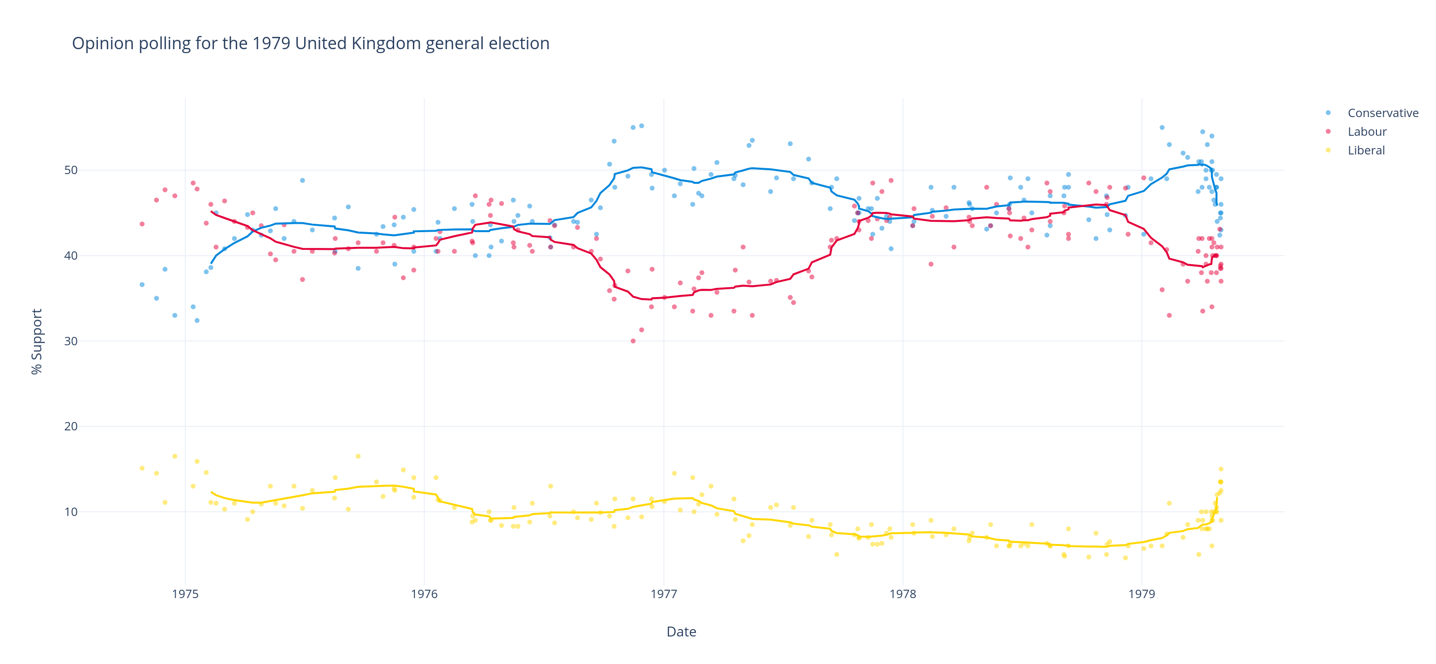 Moving average of opinion polls for the 1979 United Kingdom general election